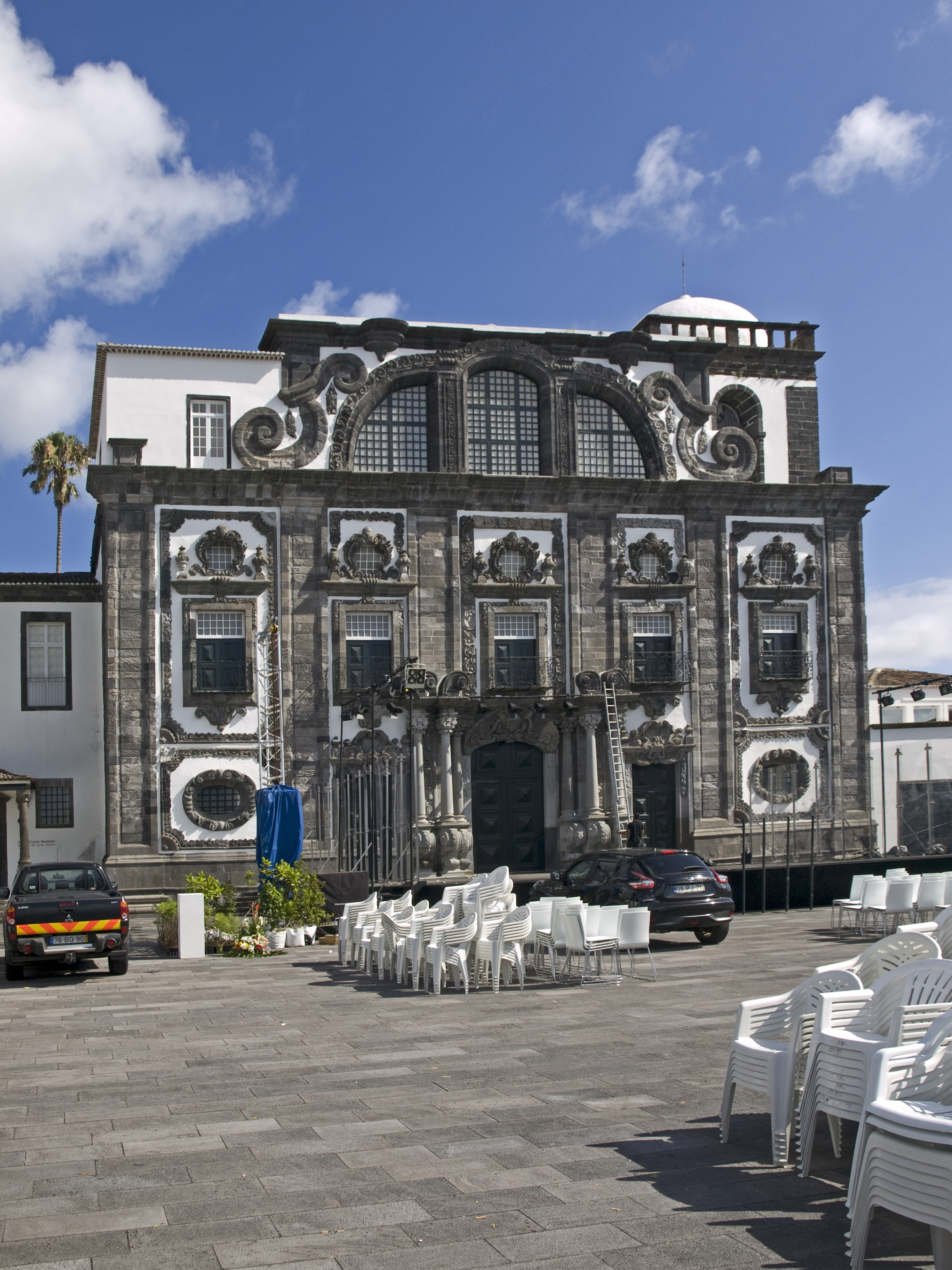 Church of Jesuite Collegium, currently museum, Ponta Delgada